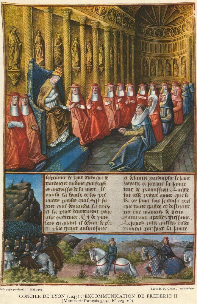 Excommunication of emperor Fridrich II in Lyon 1245